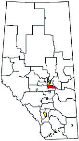 Map showing the location of Leduc-Beaumont-Devon a provincial electoral district in Alberta under 2004 provincial boundaries